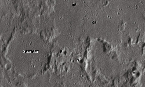 Saunder lunar crater as seen from Earth with satellite craters labeled